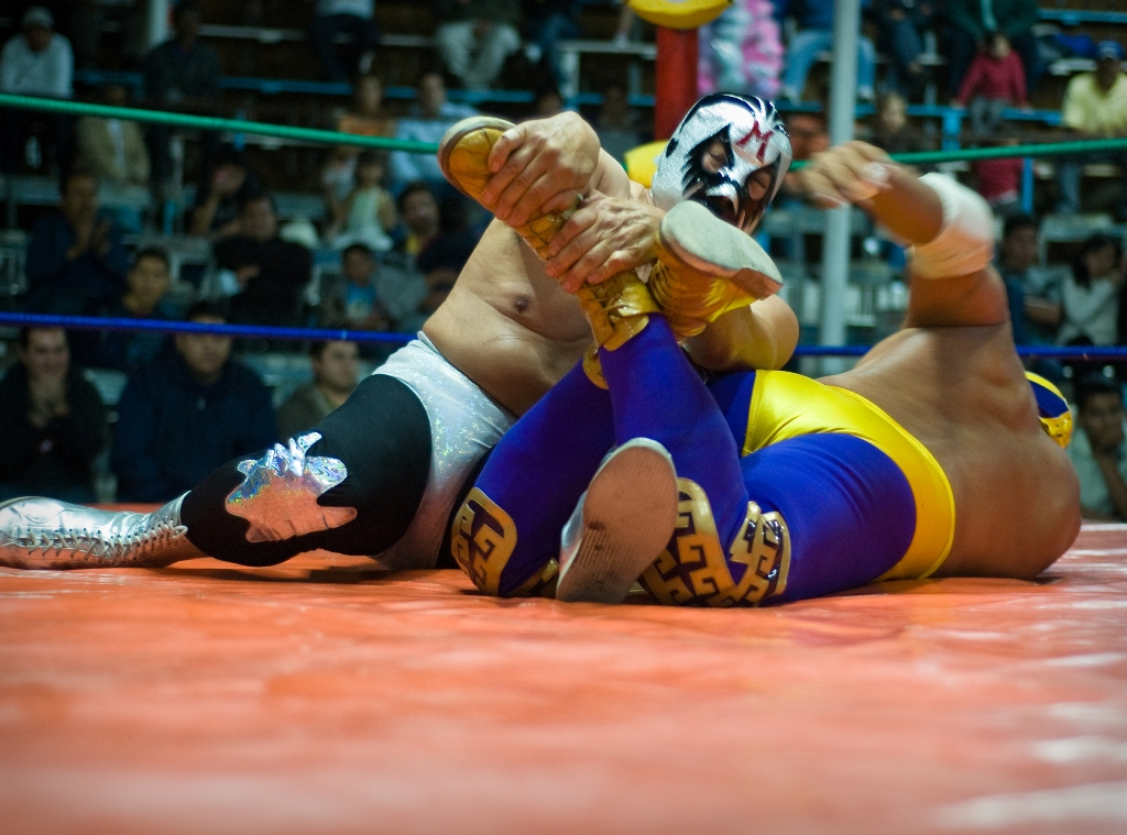 Mexican Luchador Mil Masracas wrestles El Canek, lucha libre